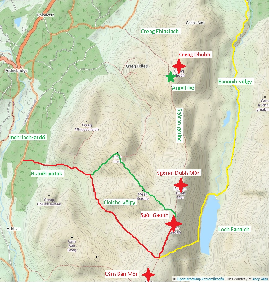 Paths around Sgor Gaoith.